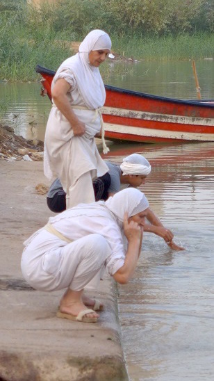 Mandaeans at Sunday morning prayer by Karun River, Ahvaz, Iran in October 2013